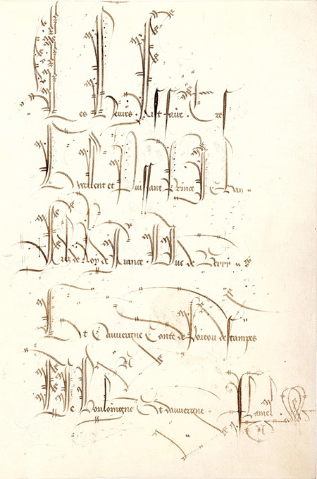 Ex-libris page of the manuscript, written by the Duke's secretary, Jean Flemal. Calligraphy, with cadel capital letters.